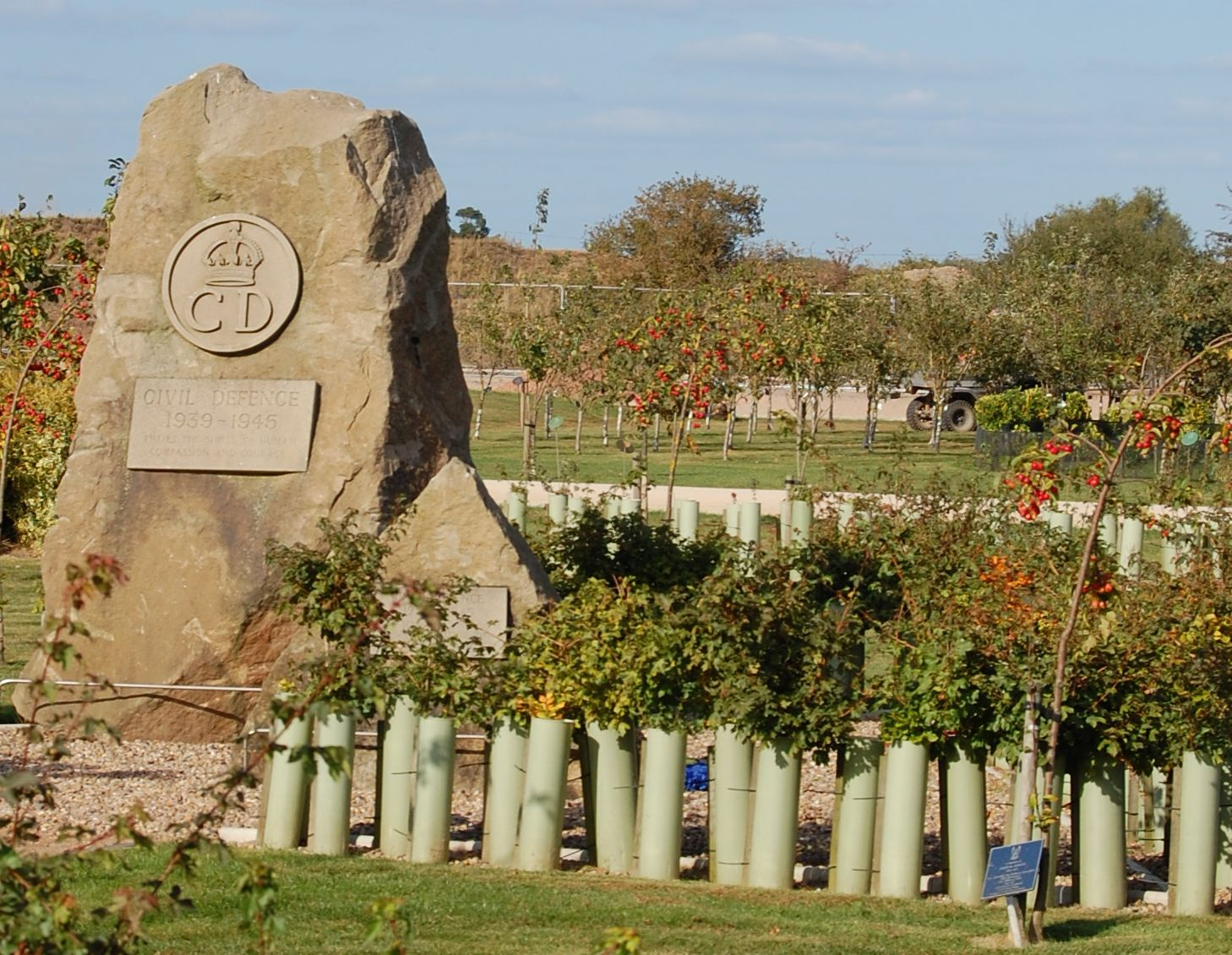 Civil Defence Service 1939-1945 memorial, at the National Memorial Arboretum, Alrewas, Staffordshire, England.